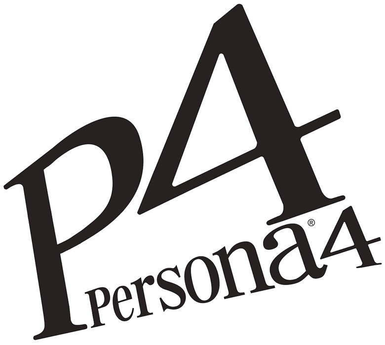 Logo used for Atlus's Shin Megami Tensei: Persona 4 video game (2008).